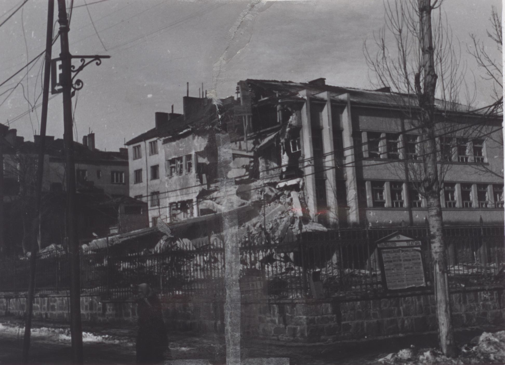 Sofia Bombings 1944: "Sveti Sedmochislenici" School